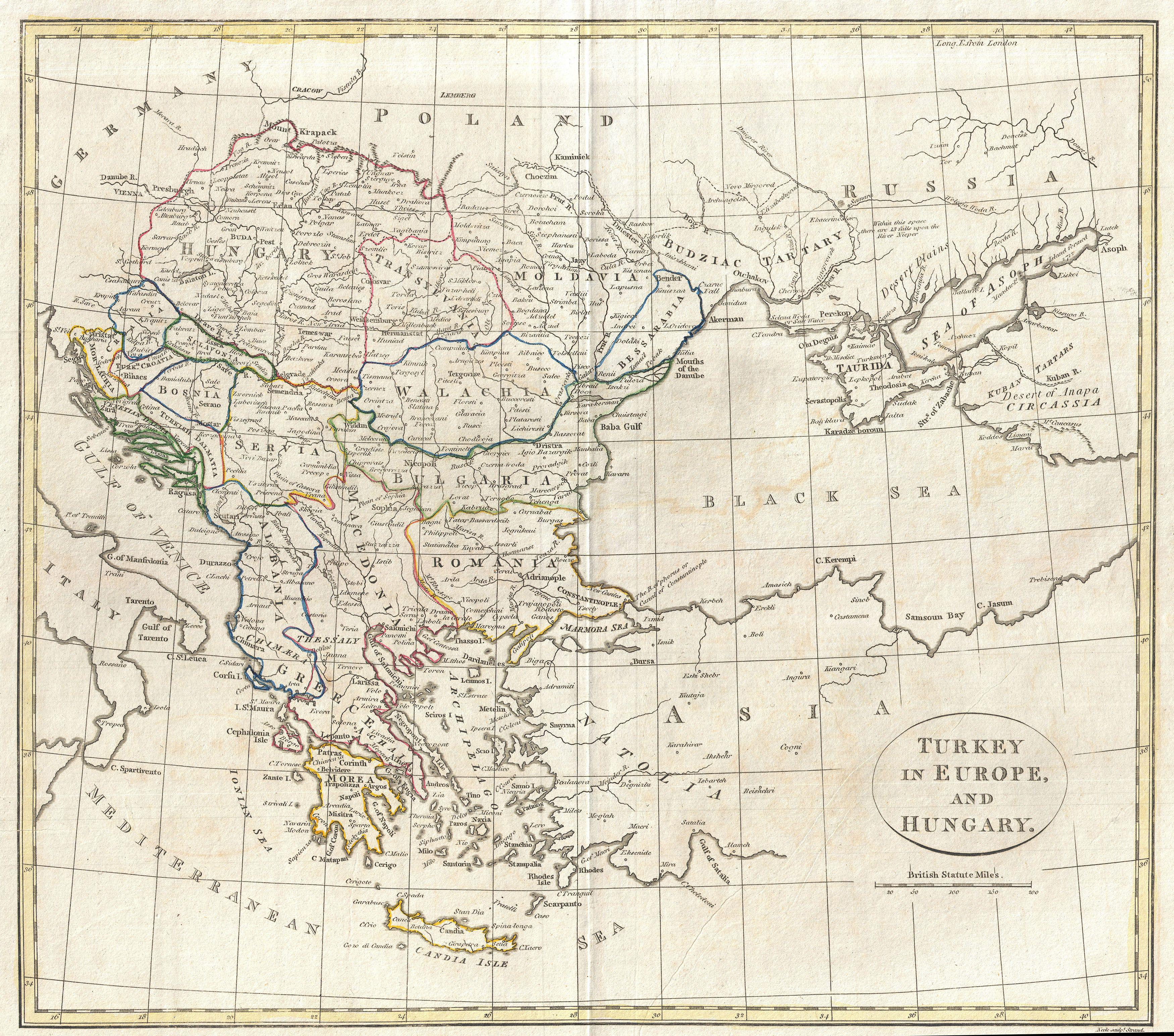 A fine 1799 map of Greece, the Balkans, and Turkey in Europe by the English map publisher Clement Cruttwell. Covers from Hungary and Moldavia in the north, down to Crete (Candia) in the south; and from Croatia in the west to Bessarabia in the east, inclusive of Greece, Macedonia, Albania, Romania, Bulgaria, Serbia, Walachia, Moldova, Transylvania, Hungary, Croatia and Bosnia. Also shows parts of adjacent Germany, Poland, Russia, Turkey, and Italy. Includes rivers, political boundaries, important cities, ports and gulfs. Mountains and other topographical features shown by profile. Outline color and fine copper plate engraving in the minimalist English style prevalent in the late 18th and early 19th centuries. Drawn by Clement Cruttwell and published in the 1799 Atlas to Cruttwell's Gazetteer.